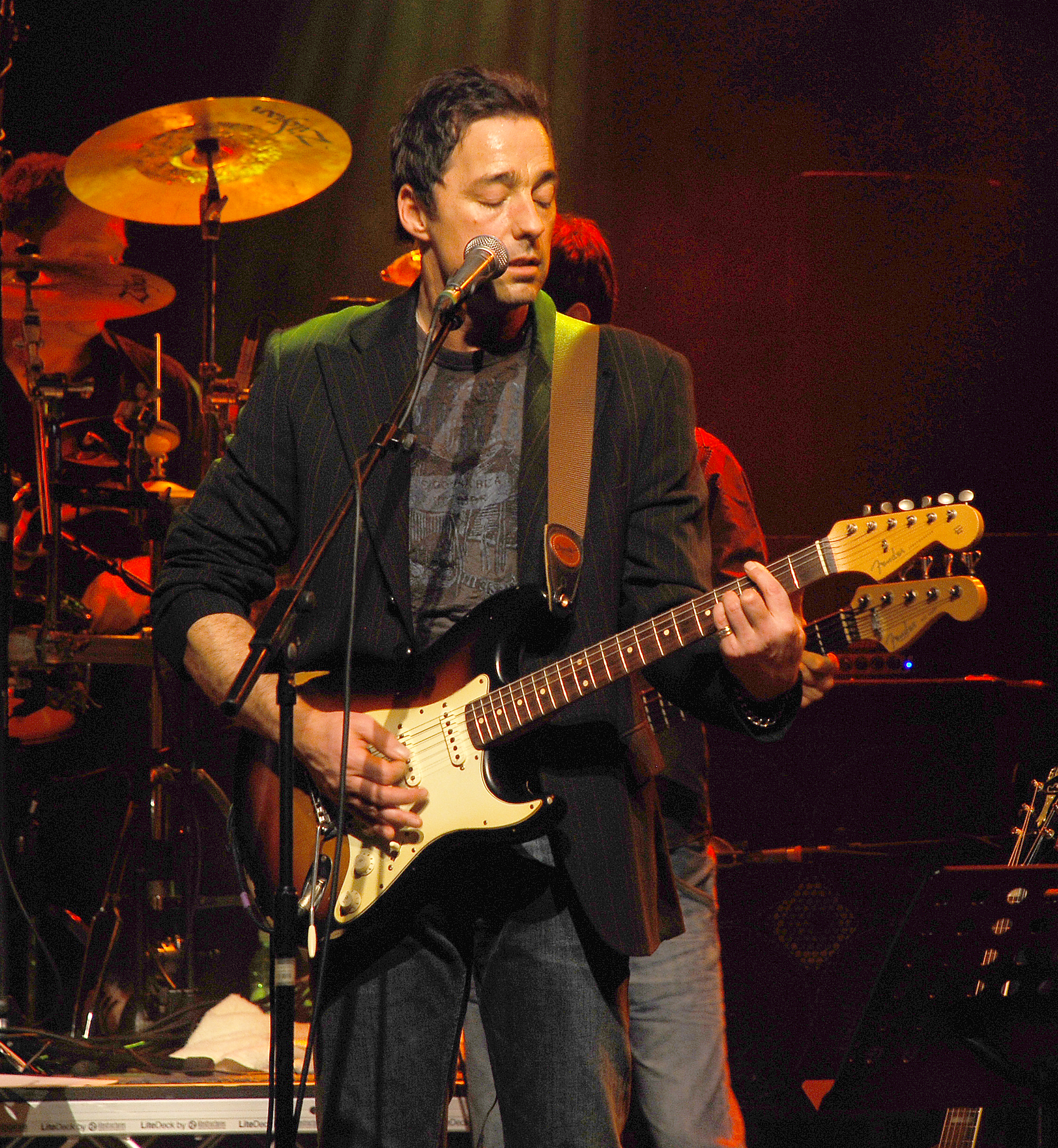 Richard Drummie. He is half of the duo "Go West".